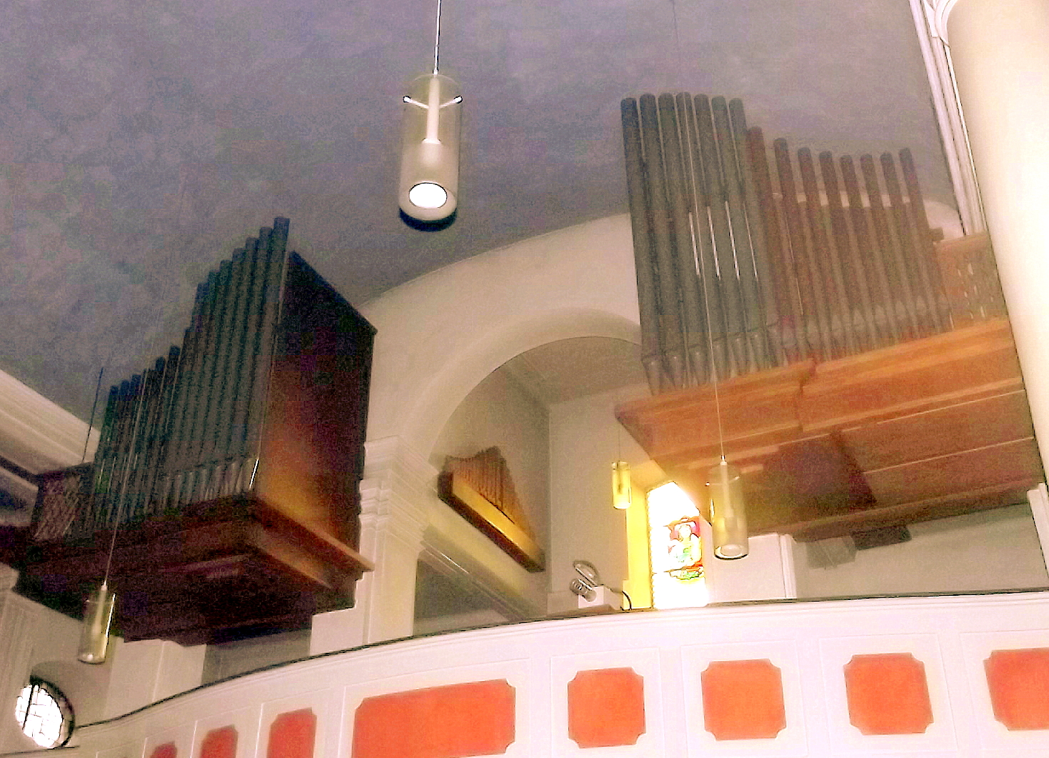 Interior of the roman catholic church in Hirzweiler-Welschbach, Saarland, Germany